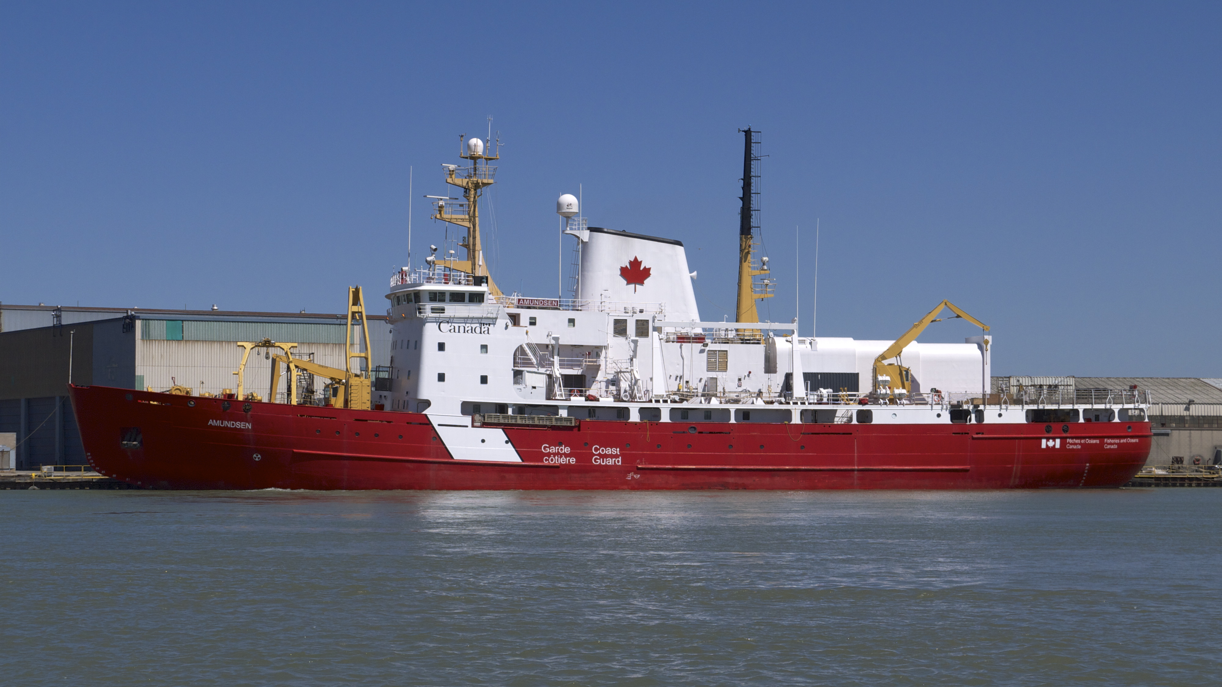 CCGS Amundsen at Port Weller.